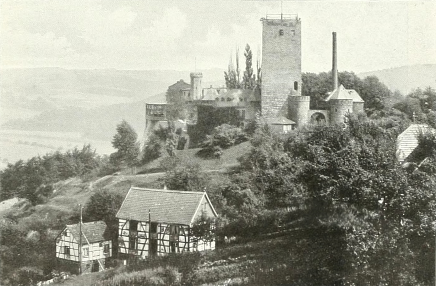 Blankenstein Castle in Hattingen, north-western aspect